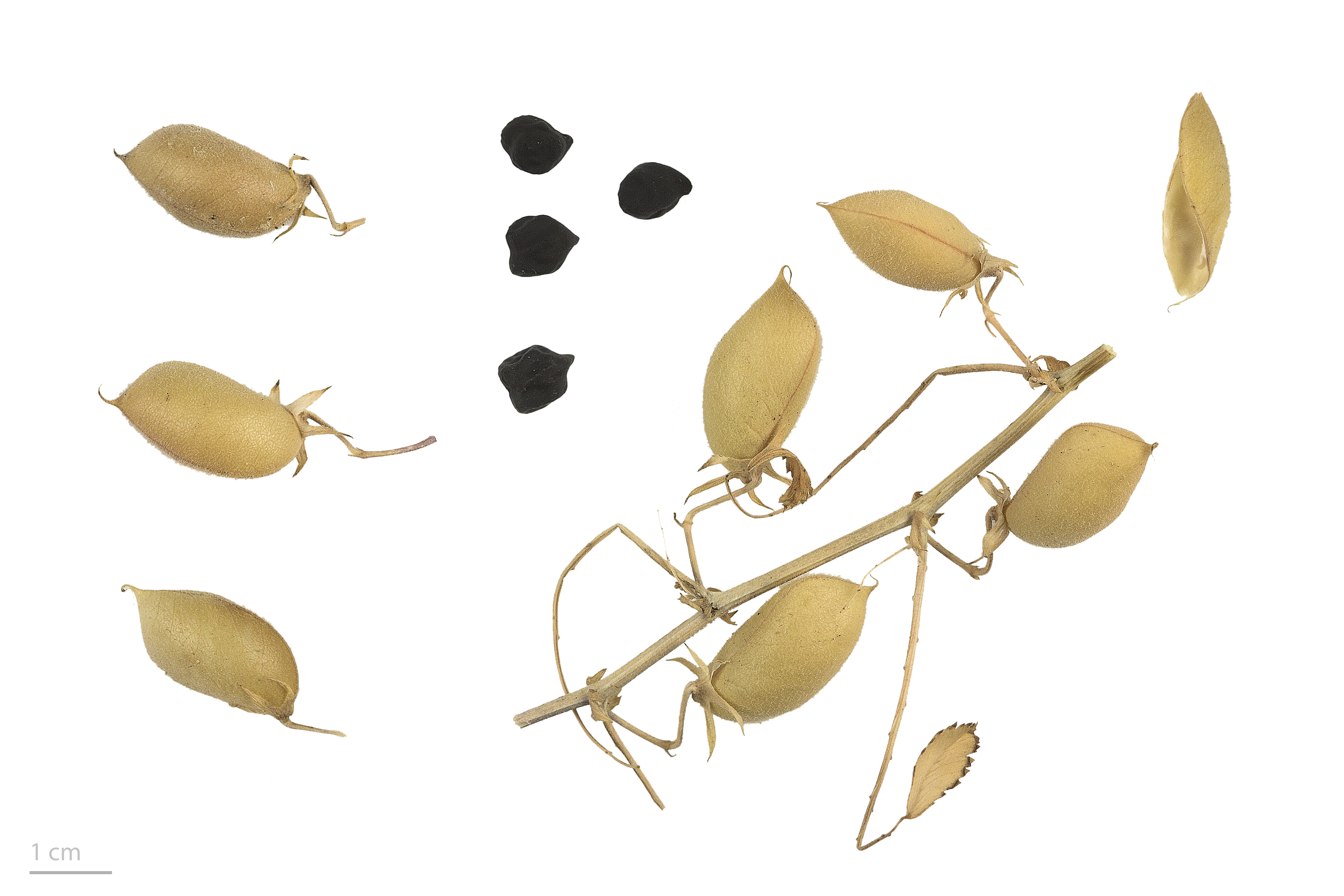 Cicer arietinum noir, chickpea "black", seeds